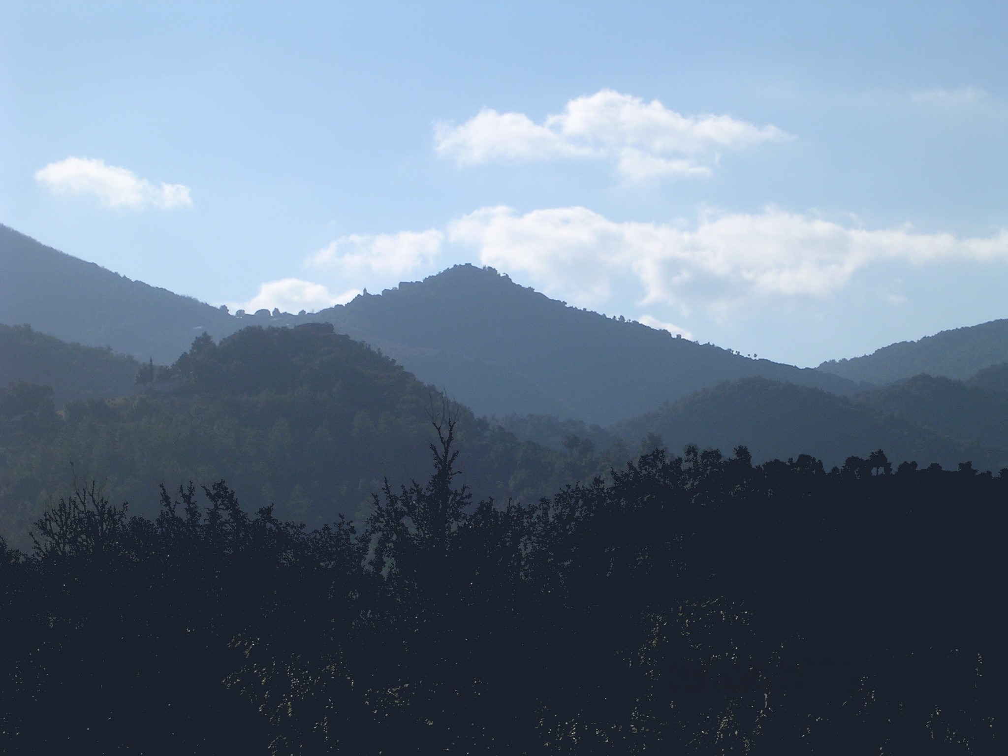 Oppidum of Carticasi, Castagniccia, Corsica Corsu: Nu i nuli, u pughjale carticasincu